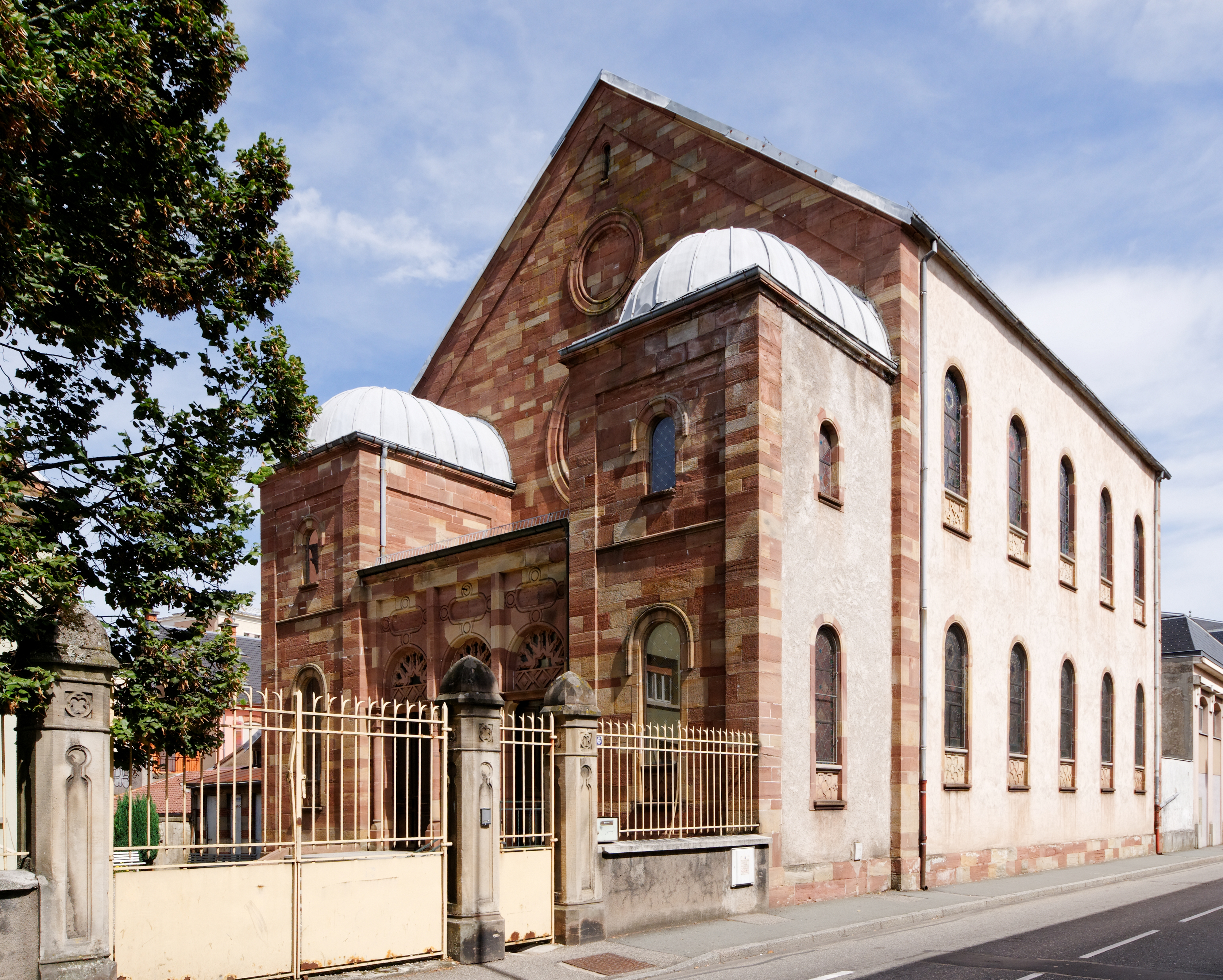 This photograph was taken with a Nikon D300 Synagogue de Belfort. Monument inscrit MH n°PA00101143.